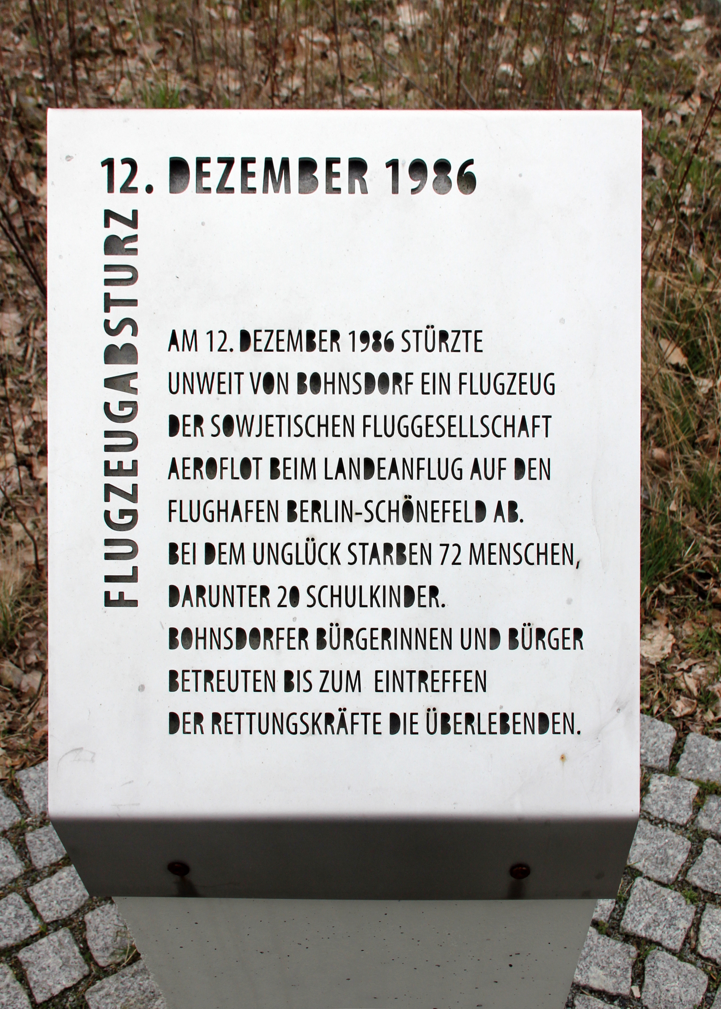 Memorial plaque, Flugzeugabsturz, Waltersdorfer Straße/Waldstraße, Berlin-Bohnsdorf, Deutschland